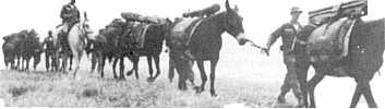 U.S. Army mules 1942-49. Helped in constructing NORAD.